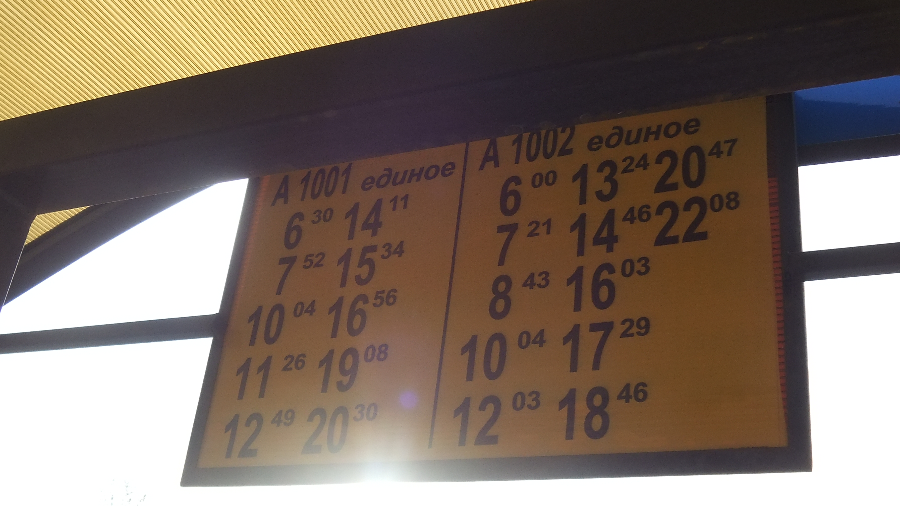 Posyolok Kievskiy bus 1001 and 1002 timetable. May 2013.